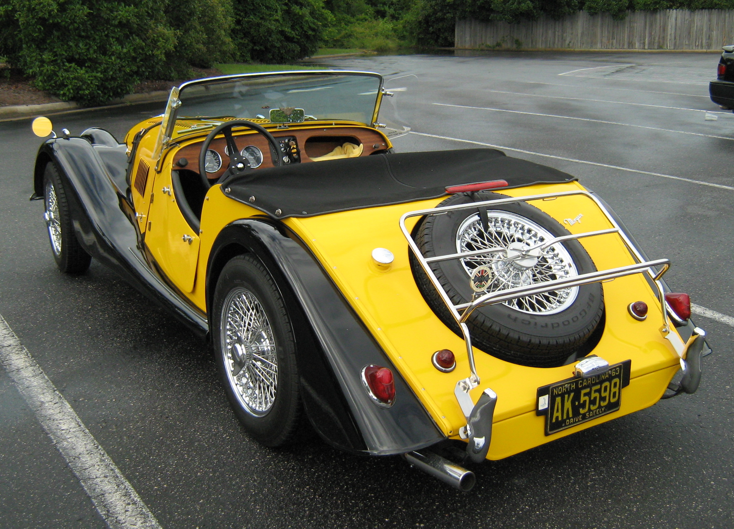 1963 Morgan Plus 4 - rear view. Photograph taken in North Carolina.